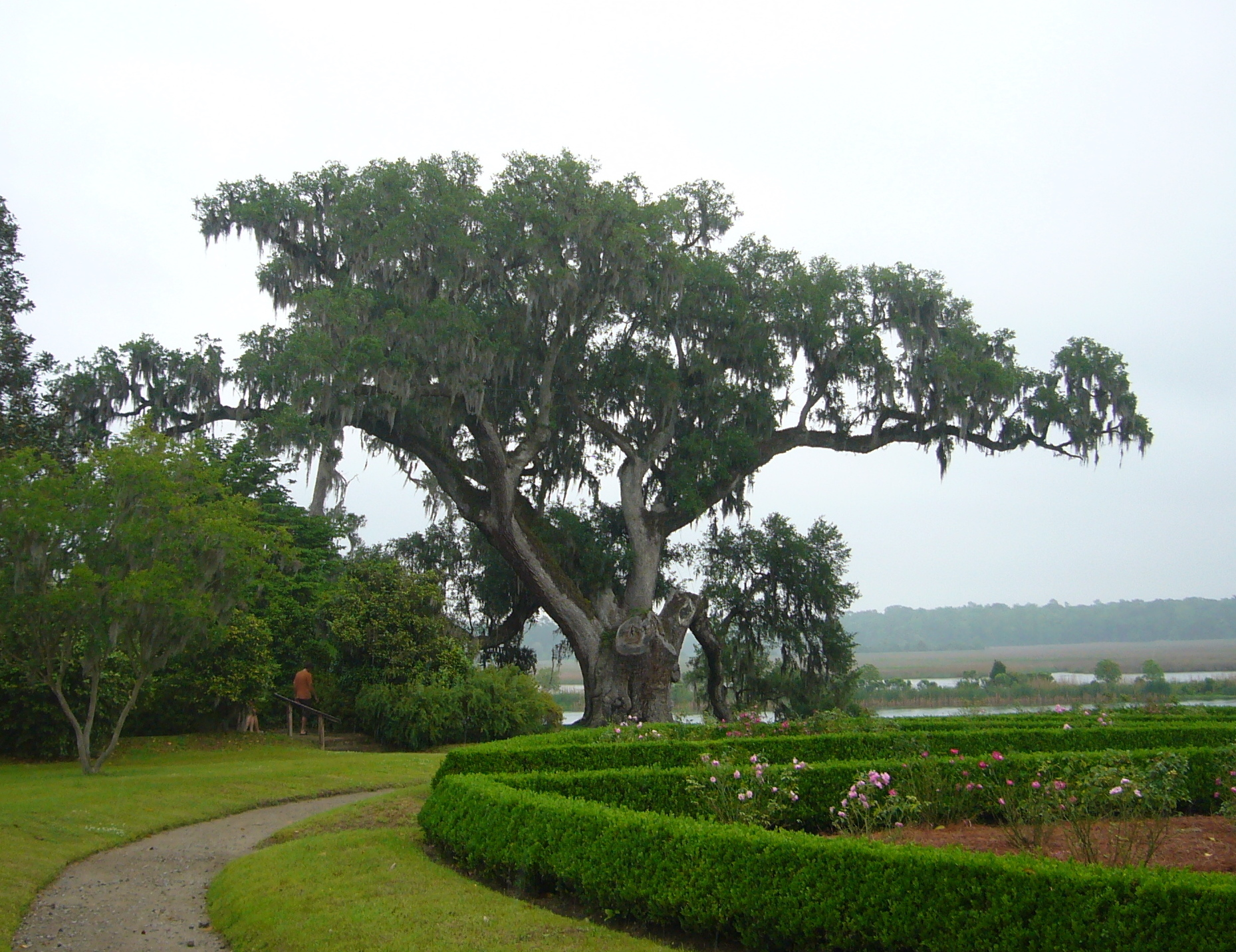 Middleton Oak, or Great Oak, an ancient Live Oak at Middleton Place, SC, USA